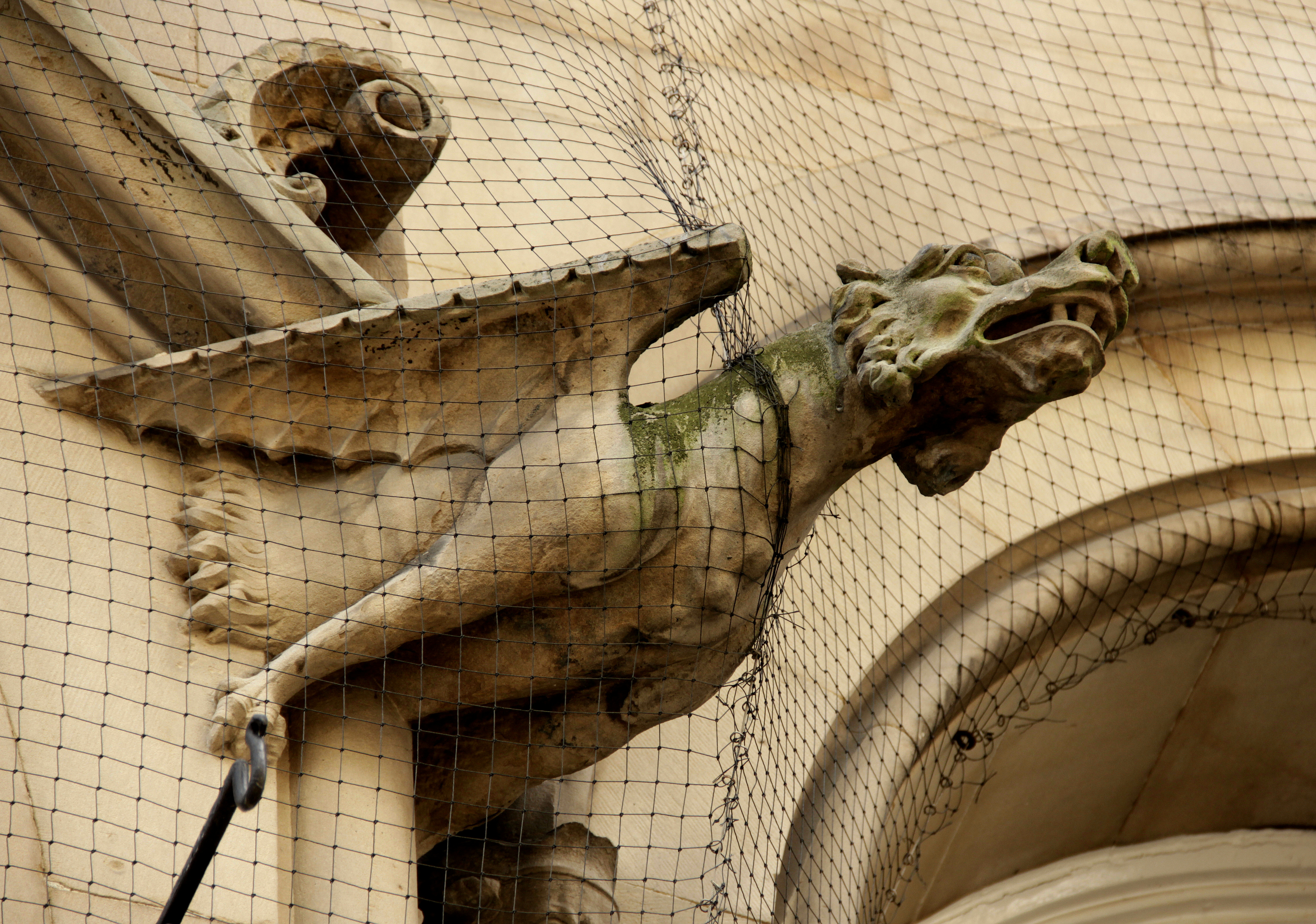 Architectural sculpture on former Commercial Bank, Bradford (now Natwest Bank) at 7 Hustlergate, Bradford, West Yorkshire. Designed by Andrews & Pepper in 1867 and opened in 1868. All exterior carving is by Mawer & Ingle of Leeds. The carving has a maritime theme throughout, in reference to 19th century British colonial sea trade, which was a source of profit for the bank. This theme includes friezes of waves, mythical or imaginary sea creatures, and mariners. Showing gargoyle in form of an imaginary sea-wolf.